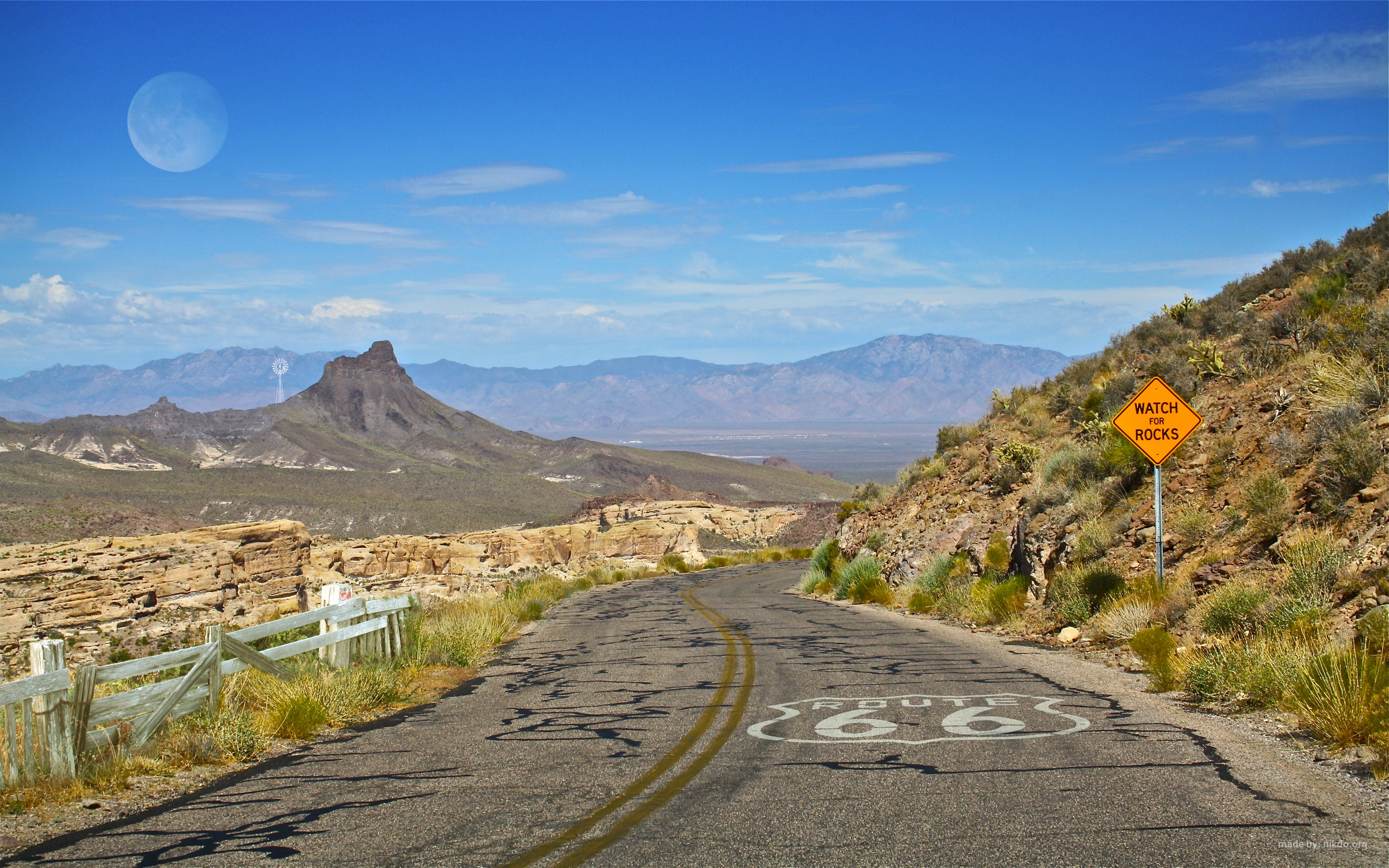 Route 66 in Arizona with a sign saying "Watch For Rocks"